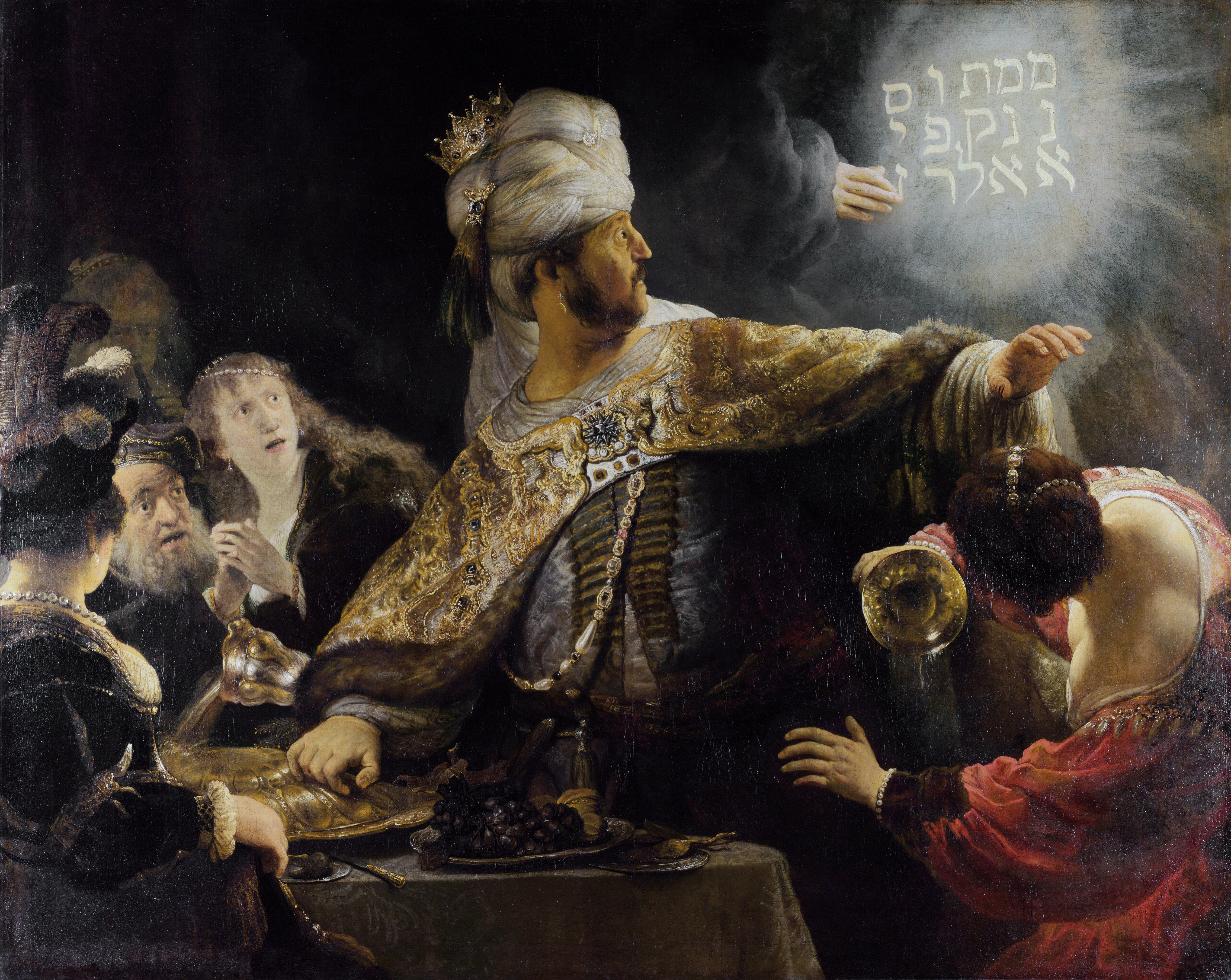 Belshazzar’s feast oil on canvas 167,6 x 209,2 cm signed c.r.: Rembrand/F 163(.) inscribed t.r.: Mene mene tekel upharsin